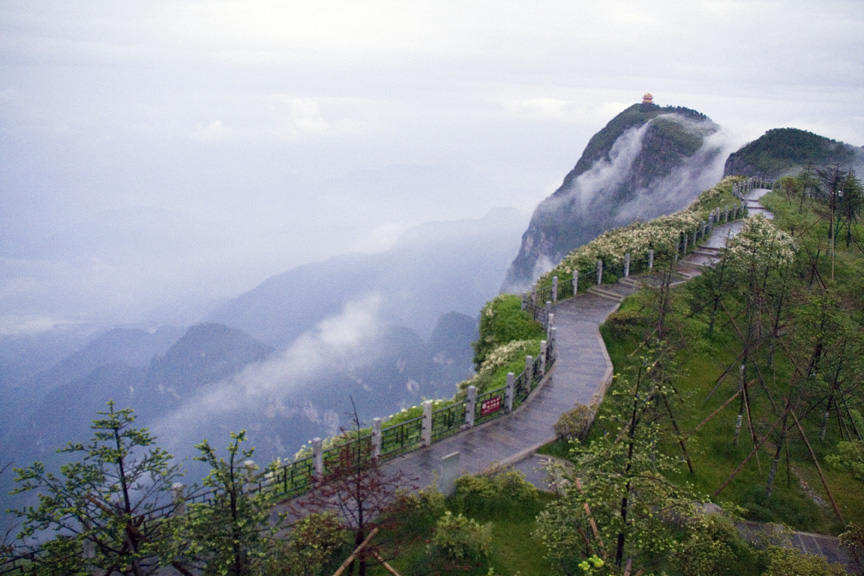 The Mount Emei